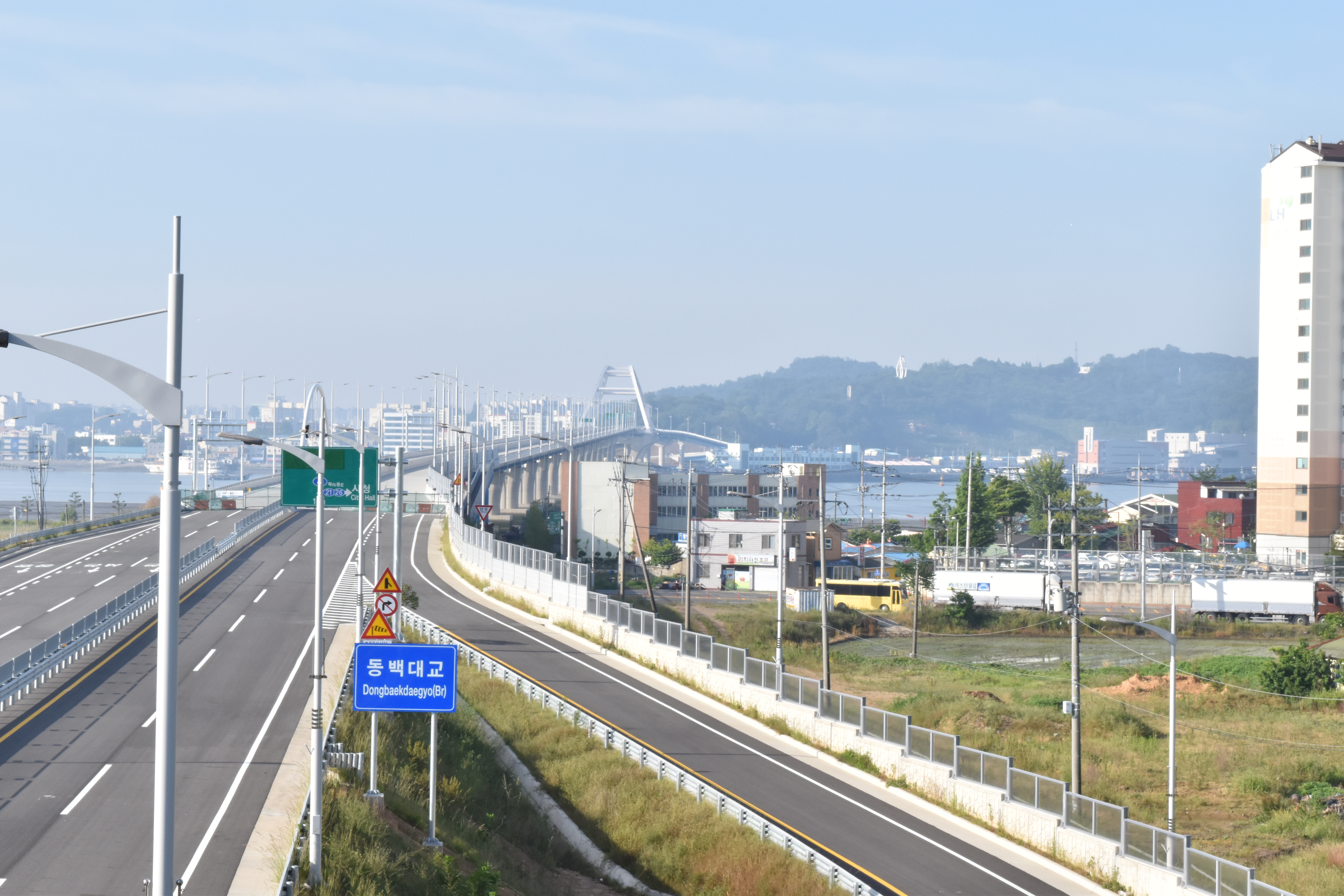 Dongbaekdaegyo, a bridge or Korean national route no 4 and no 77 between Gusan and Seocheon